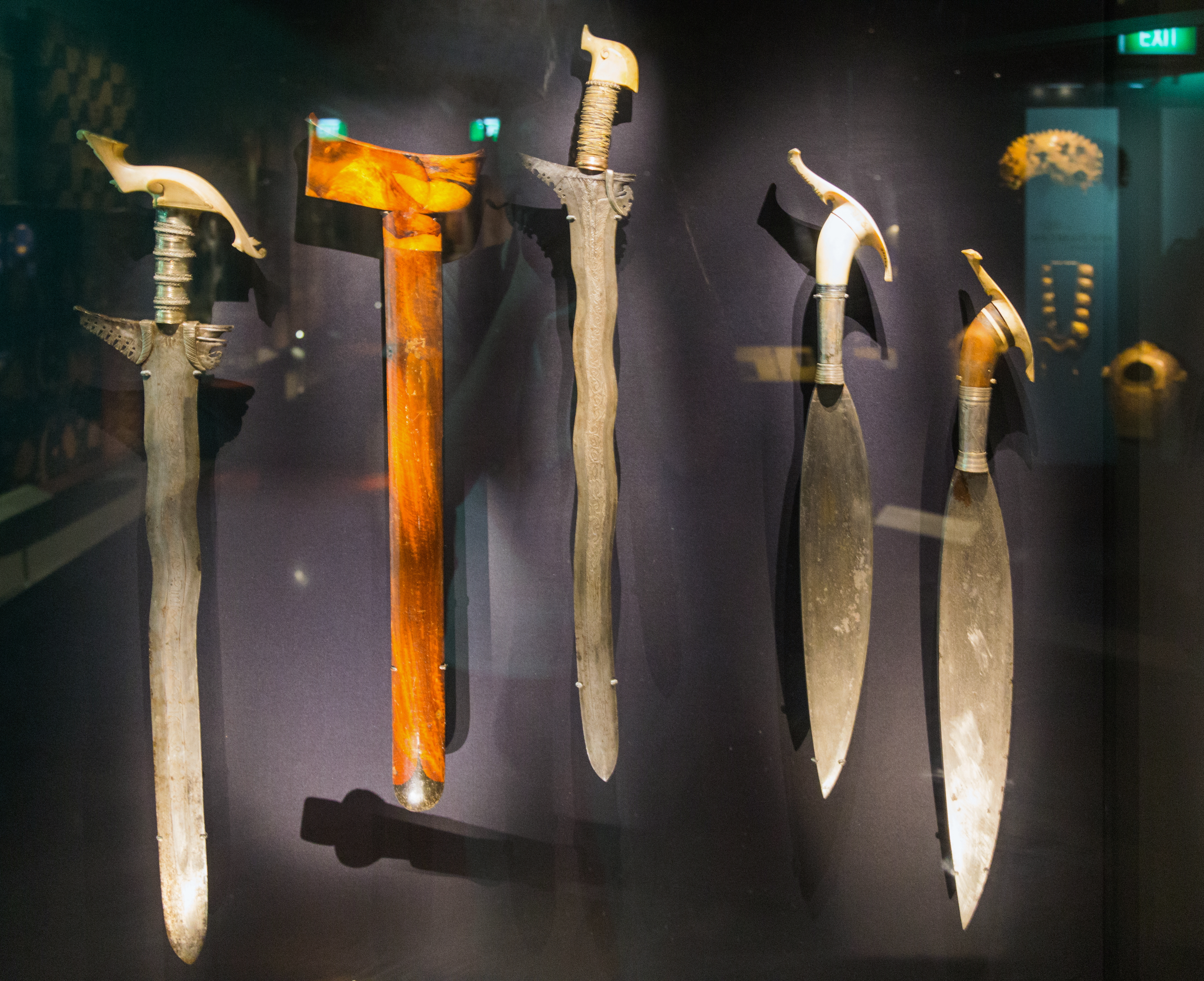 Kalis and barong swords of the Tausug people of the Philippines. Asian Civilisations Museum. Downtown Core, Central Region, Singapore.